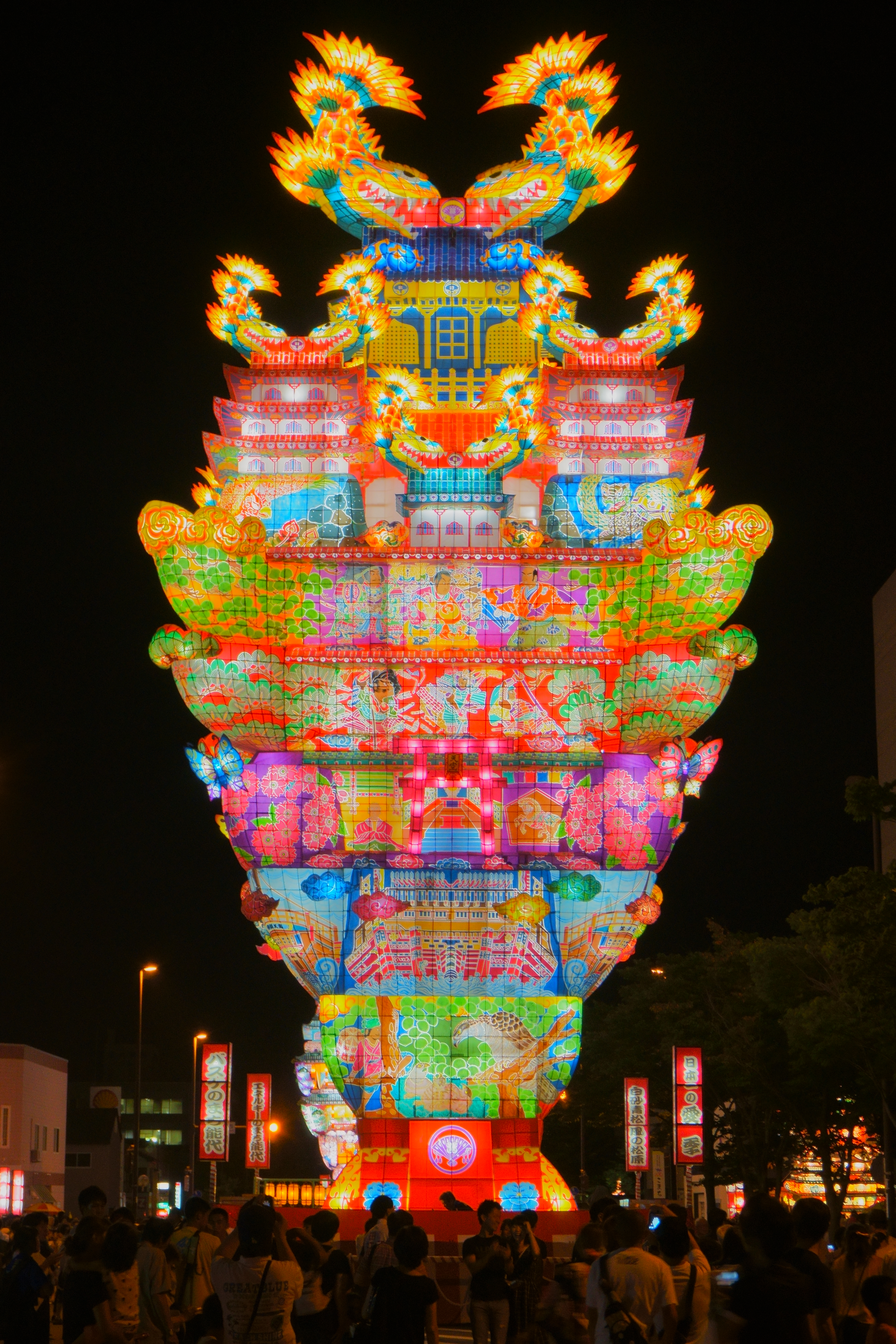 The "Tenkū no Fuyajō" is a tanabata festival held in Noshiro City, Akita, Japan This photo has been taken in the country: Japan